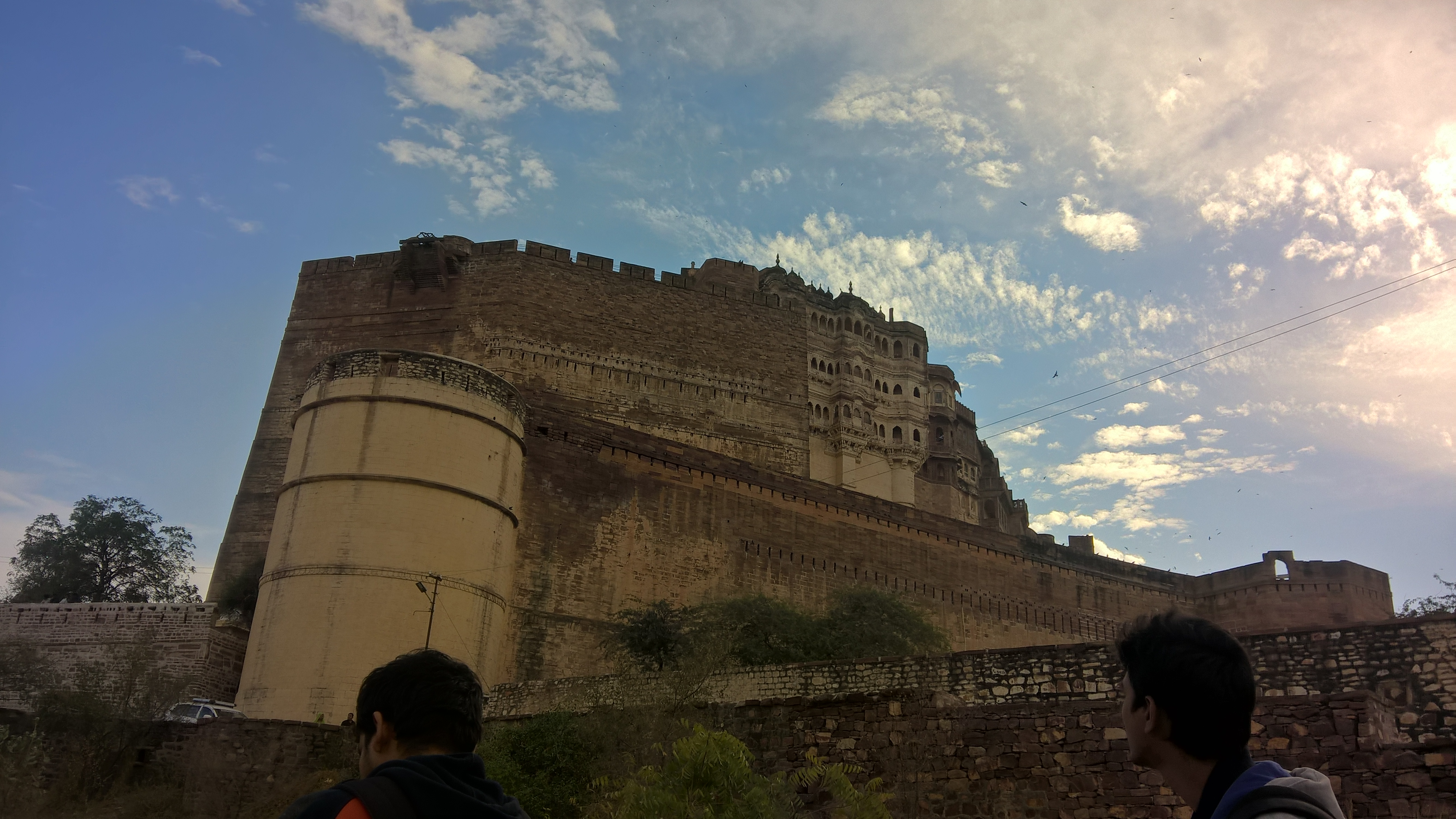 The imposing silhouette of the Mehrangarh fort against the stunning clouds at Jodhpur.